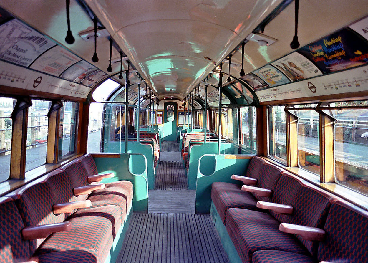 Inside 1938 tube train trailer. Photographed by SP Smiler